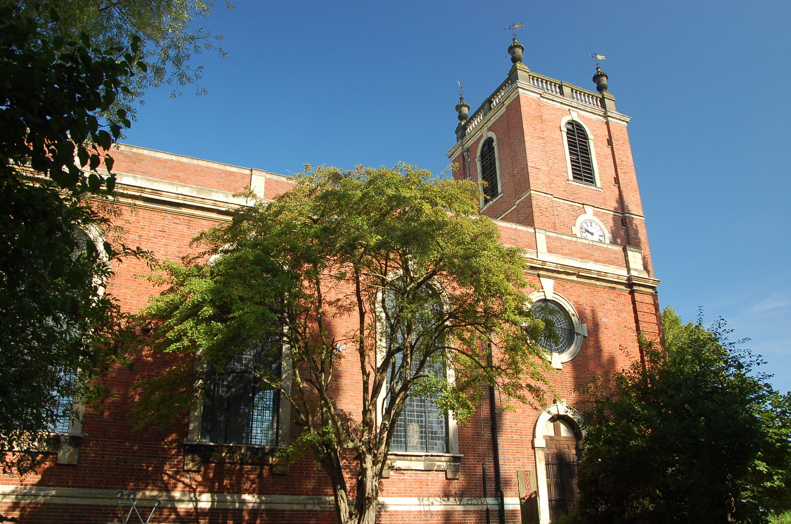 East tower and part of the nave of St Giles' parish church, Lamb Gardens, Lincoln, England, seen from the south